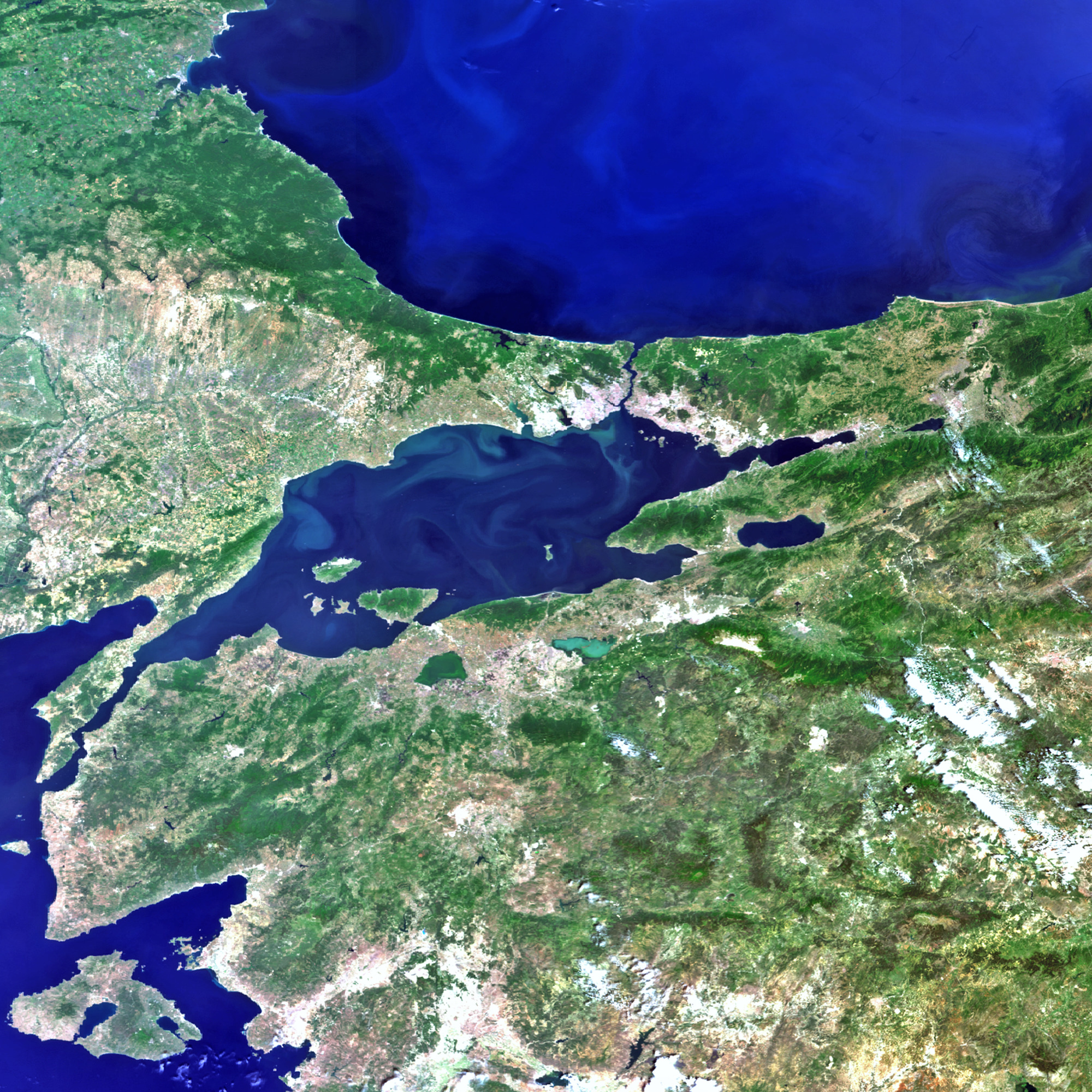 Istanbul and the surrounding area in northwestern Turkey are captured in this image acquired by Envisat’s MERIS instrument on 9 June 2011. To the north is the Black Sea, which connects to the Sea of Marmara (centre) via the Bosphorus strait. The Dardanelles strait connects the Marmara to the Aegean Sea (lower left corner). Turkey's largest city, Istanbul, is near the centre of the image at the Bosphorus strait. Istanbul straddles two continents (Europe and Asia), making it a true meeting place of the East and the West. Turkey’s location makes it vulnerable to earthquakes, with the 1000 km-long North Anatolian fault just 15 km south of Istanbul. Because earthquakes can suddenly render current maps out of date, satellite images are useful for updating views of how the landscape has been affected as well as creating reference cartography for emergency operations. In addition, before and after satellite images of the area enable authoritative damage assessment as a basis for planning remedial action.